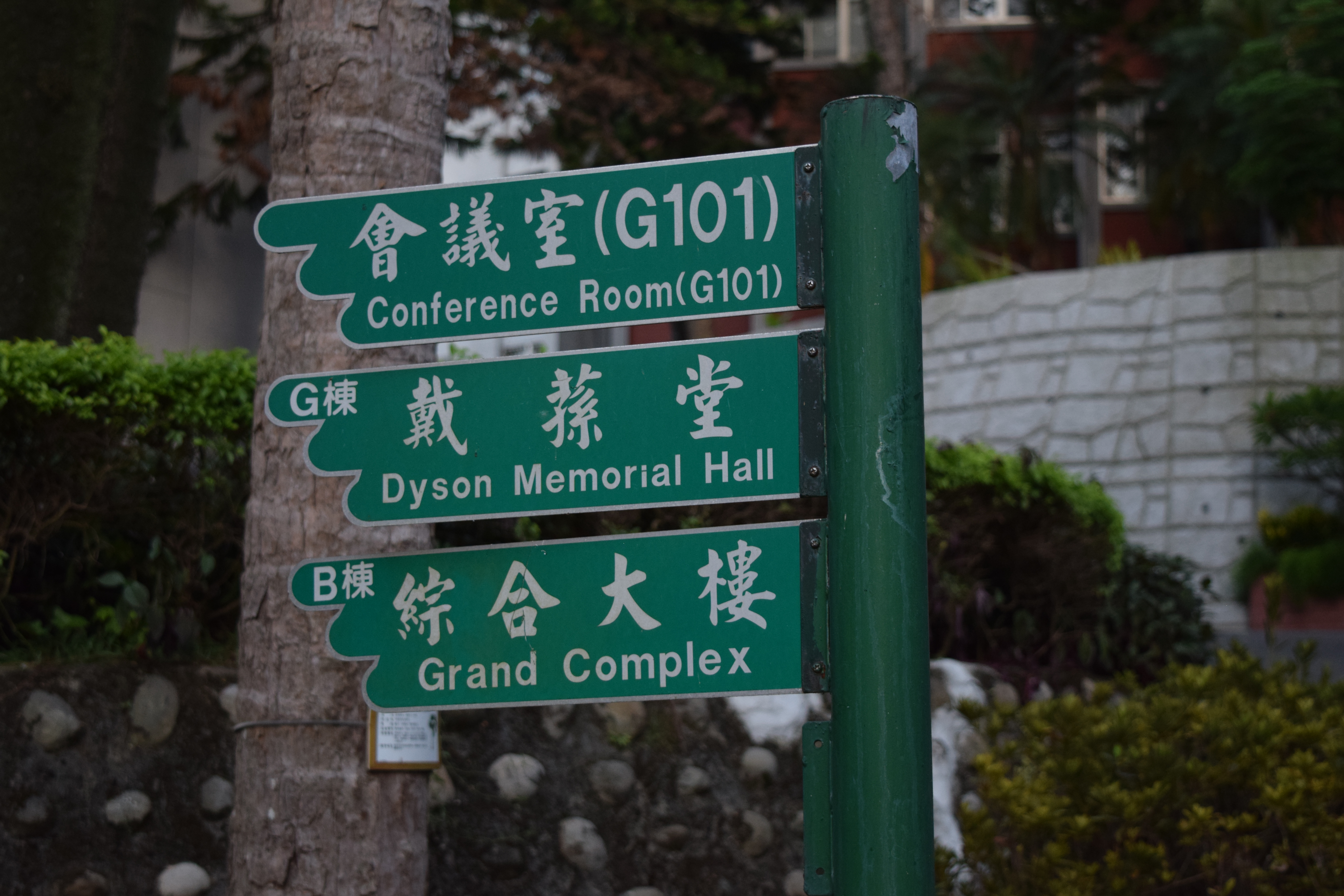 An example of campus signs at Soochow University main campus.